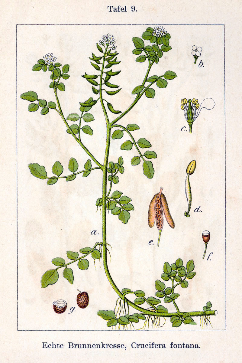 Nasturtium officinale var. officinale, syn. Rorippa nasturtium-aquaticum (L.) Hayek, Crucifera fontana (Lam.) E.H.L.Krause Original Description Echte Brunnenkressse, Crucifera fontana